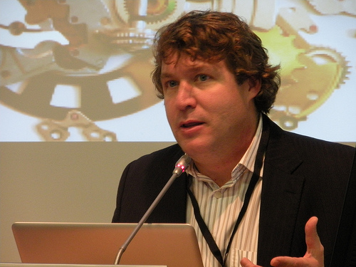 George Siemens at UNESCO Conference, Barcelona, 2009